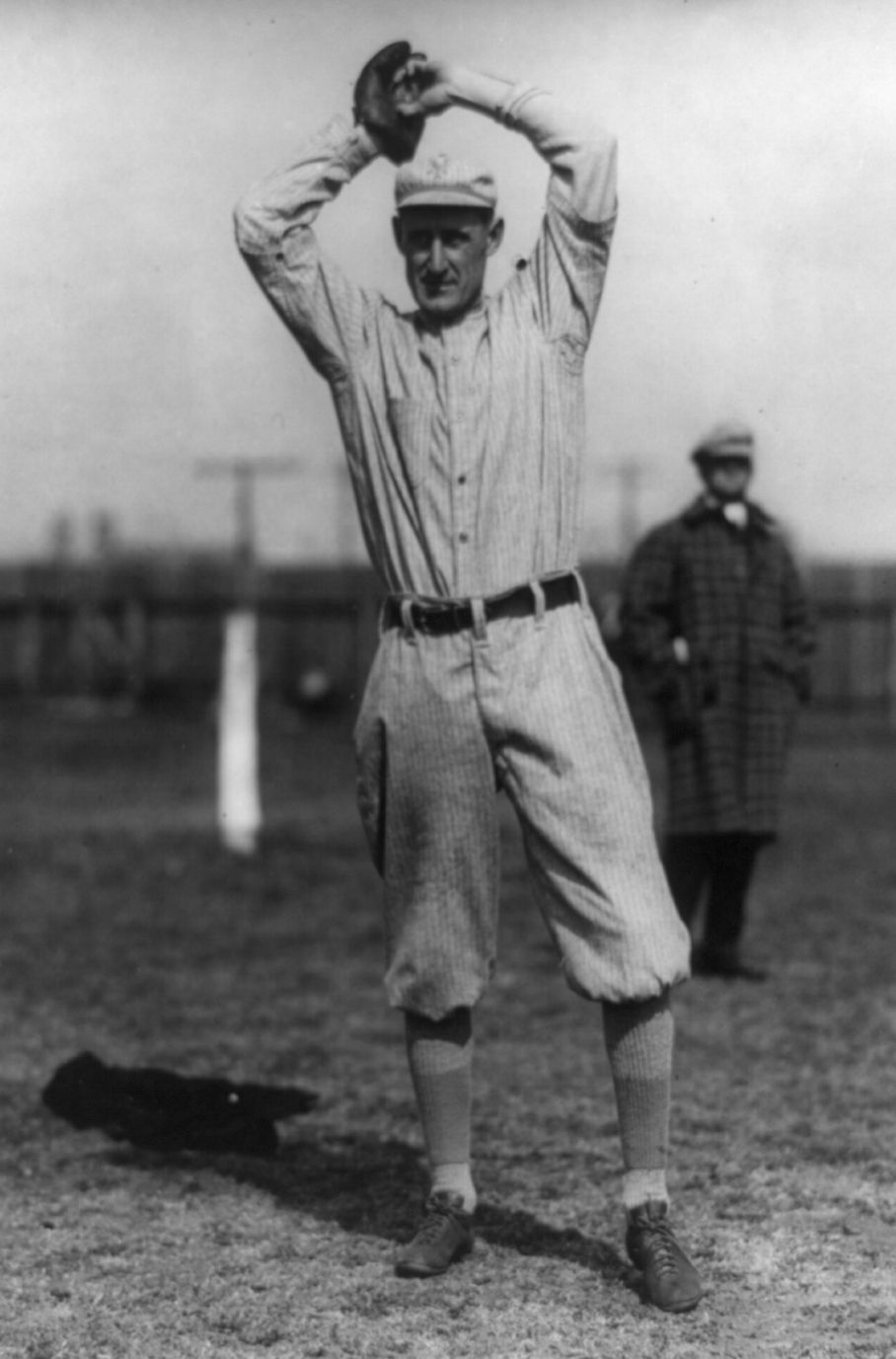 George Leroy "Hooks" Wiltse, of the New York (NL) baseball team, winding up for pitch